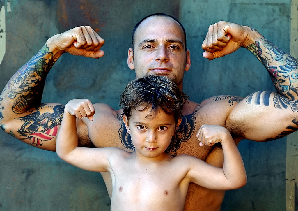 Tattooed man with a child